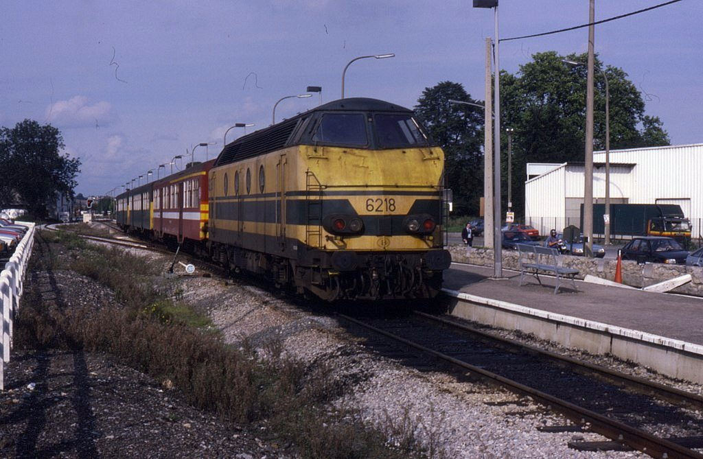 SNCB/NMBS class 62 having arrived at the branch terminus of Couvin. For years this route was worked by these locos in push-pull formation from Charleroi-Sud. Note the run round loop which probably had little use but no doubt kept for emergencies or special workings.